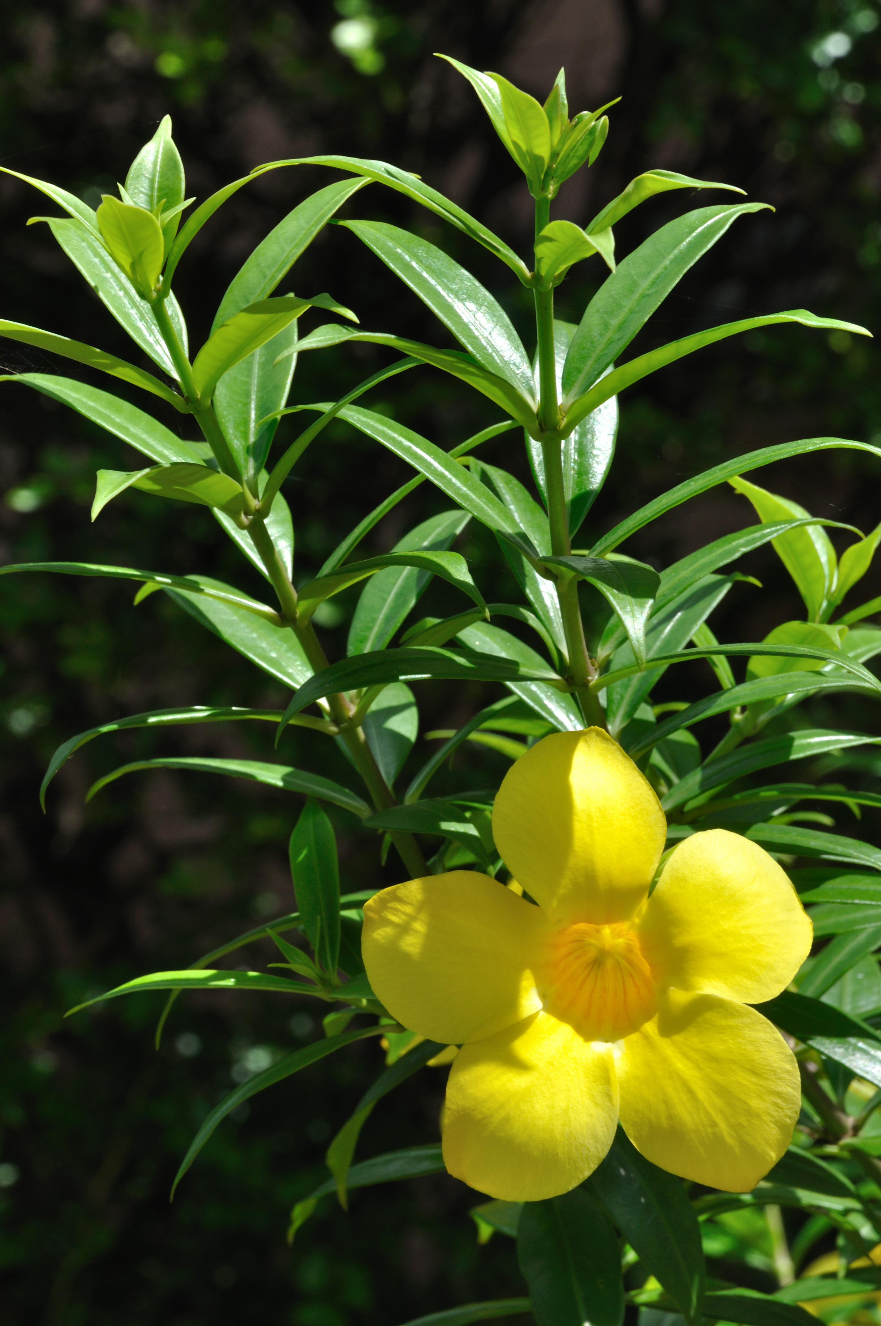 The garden flower, Allamanda Cathartica also known as Yellow Bell, Golden Trumpet, Buttercup Flower or Har-kakra in Bengali. Photograph taken in mid-monsoon at Kolkata.